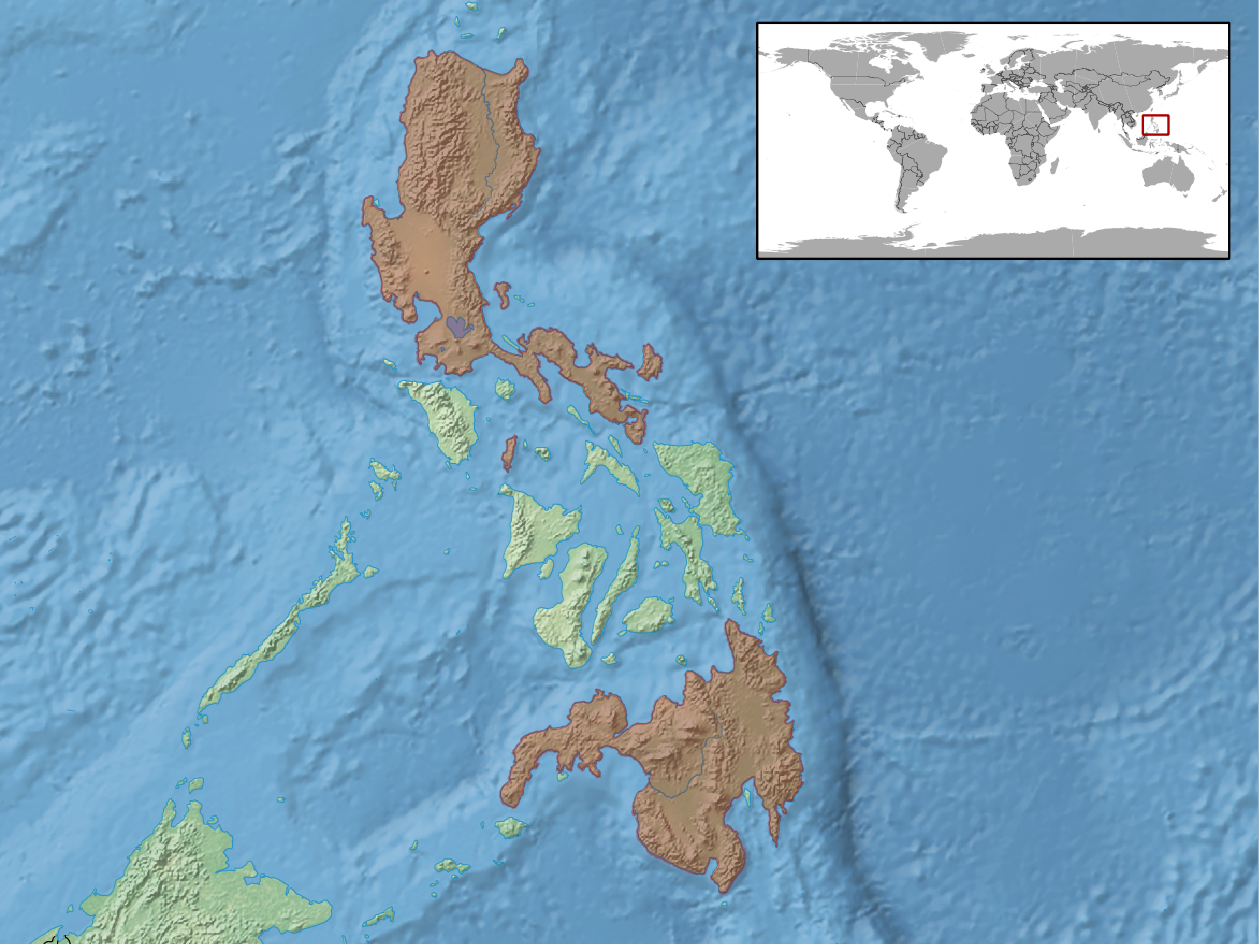 geographic distribution of Sphenomorphus decipiens (IUCN) syn Parvoscincus decipiens (RDB)